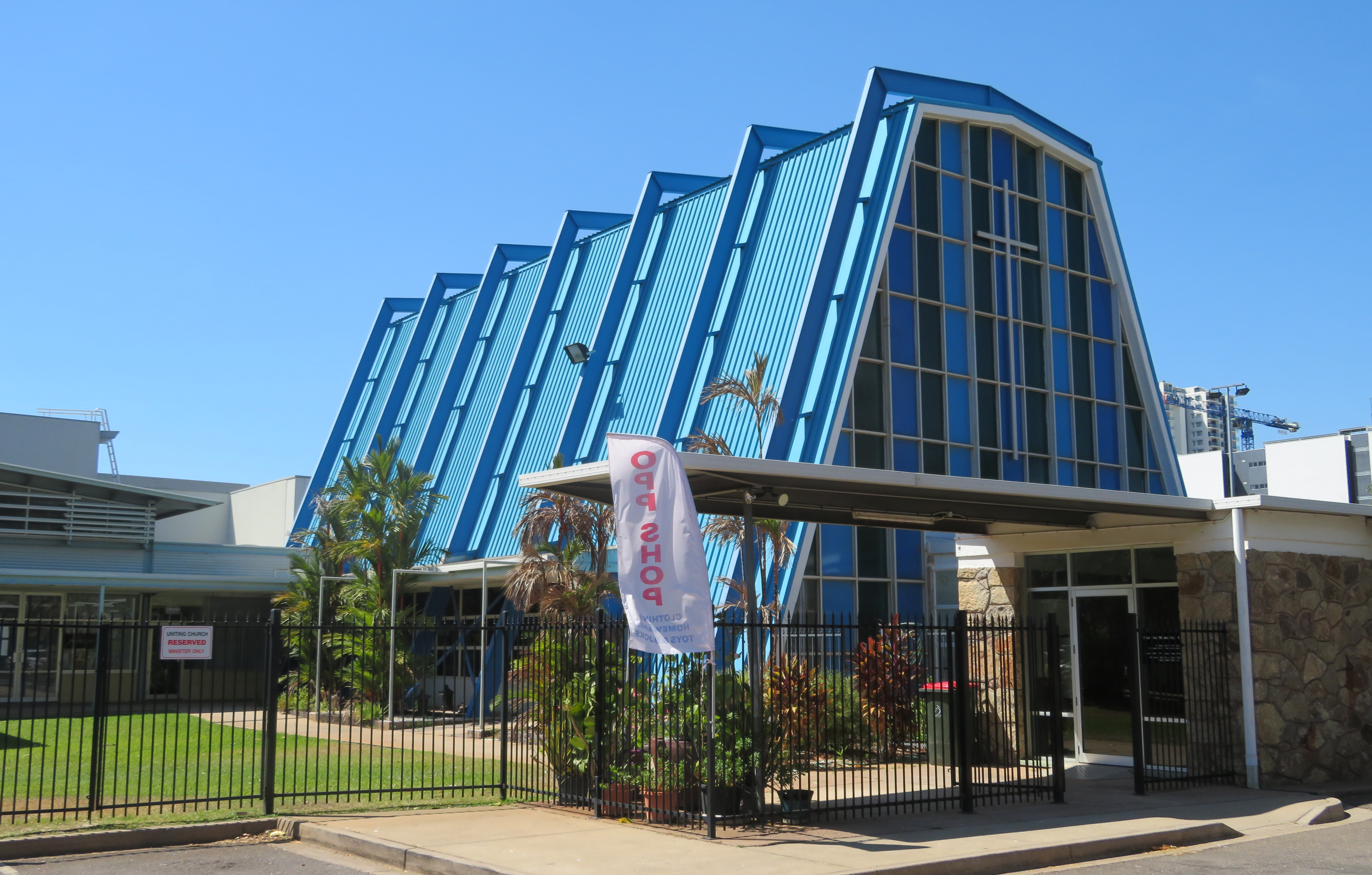 Uniting Church, Darwin, Australia